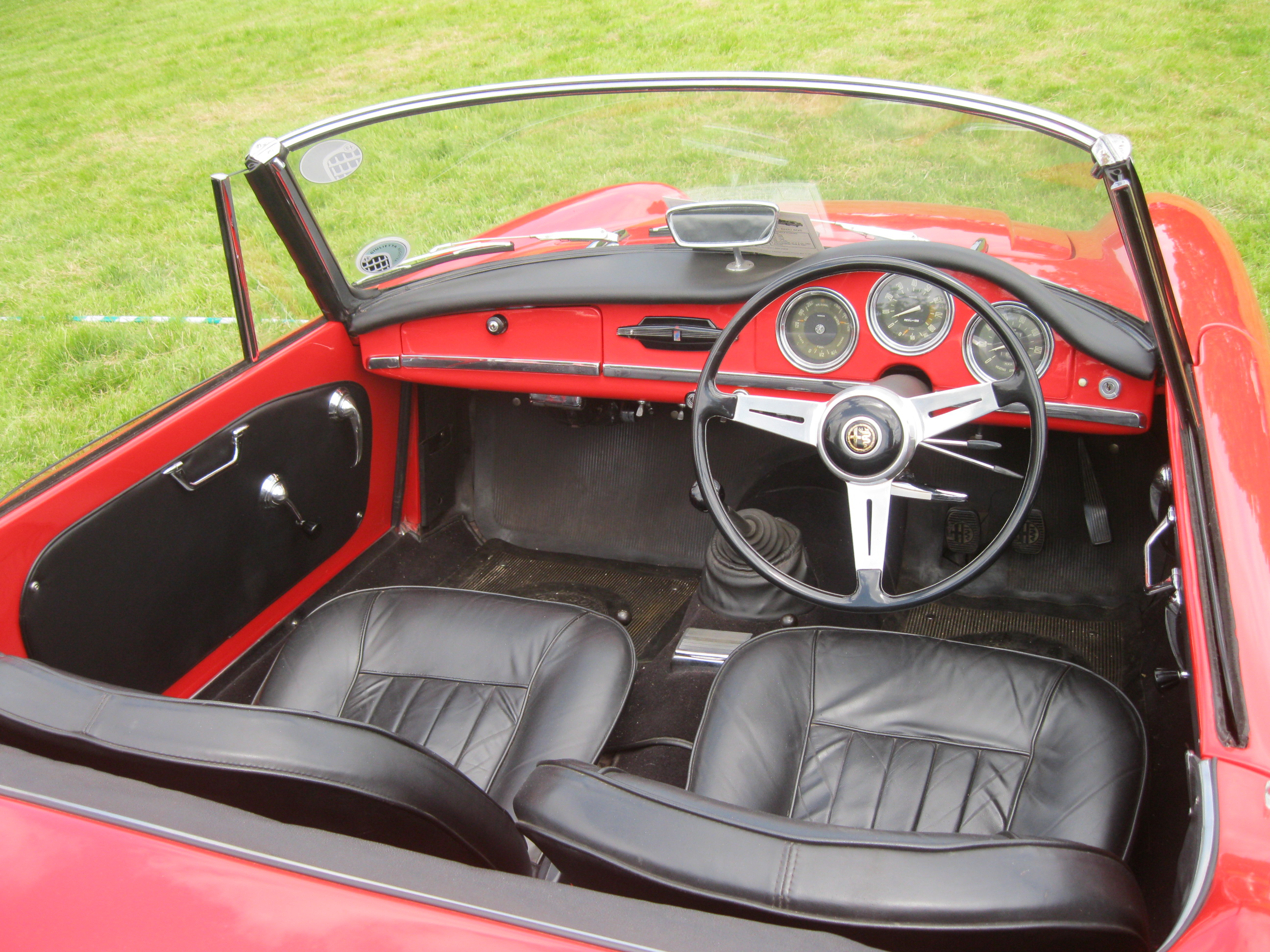 Pretty Alfa Spider spotted at the Lulworth Castle Classic Car Show on 9th June 2013